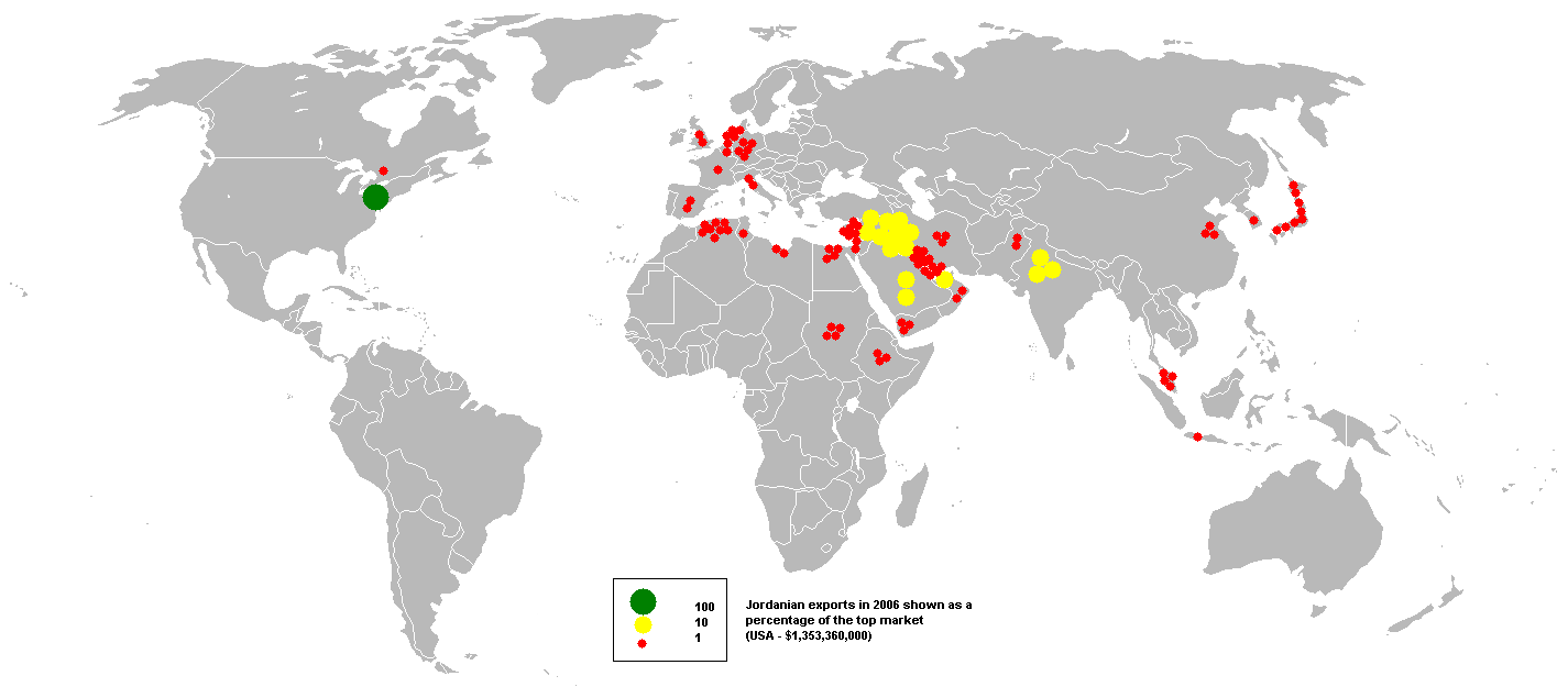 This bubble map shows the global distribution of Jordanian exports in 2006 as a percentage of the top market (USA - $1,353,360,000). This map is consistent with incomplete set of data too as long as the top producer is known. It resolves the accessibility issues faced by colour-coded maps that may not be properly rendered in old computer screens. Data was extracted on 22nd September 2007 from Based on :Image:BlankMap-World.png